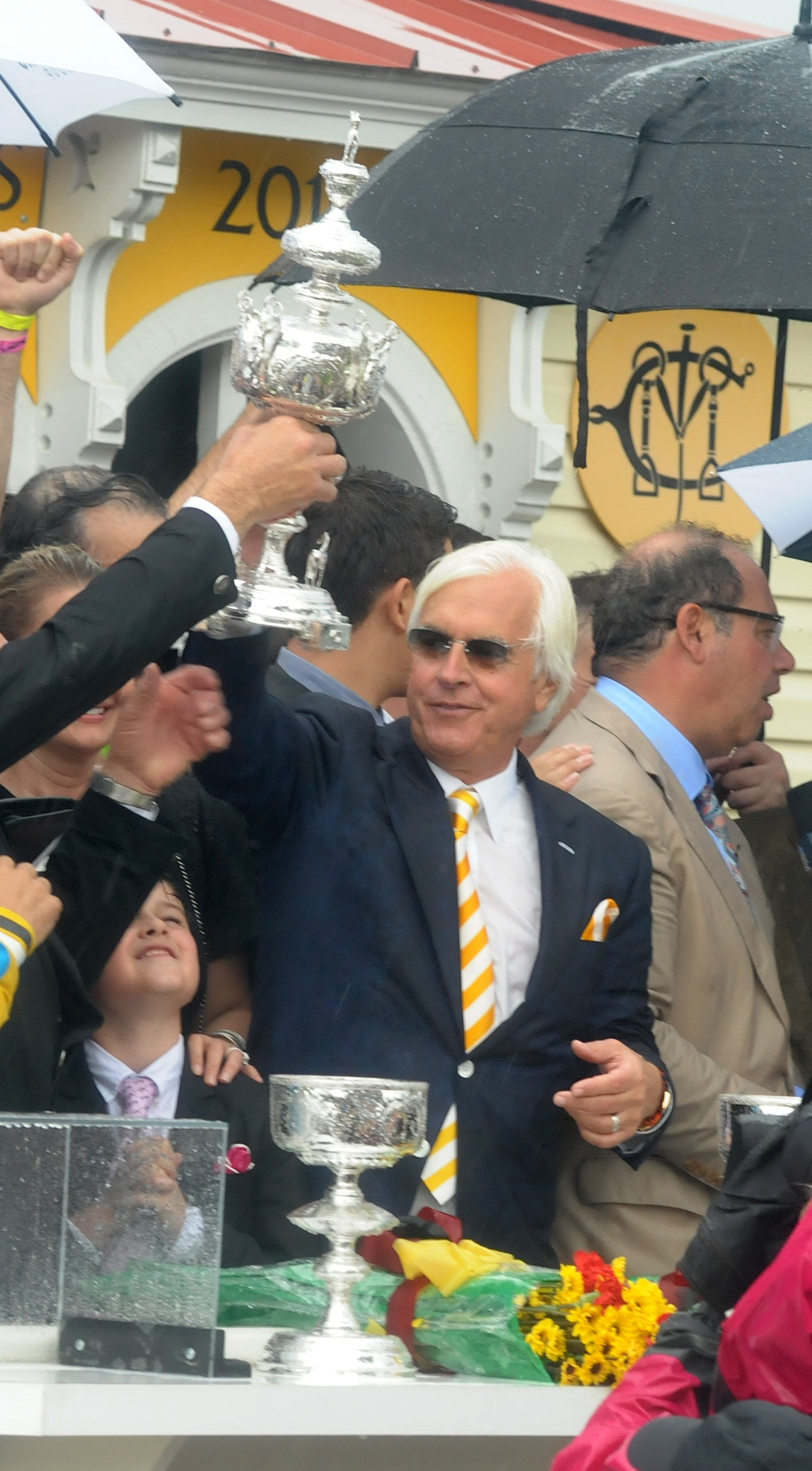 Bob Baffert holding the Woodlawn Vase at 2015 Preakness Stakes. Crop of File:2015 Preakness Stakes (17842661206).jpg